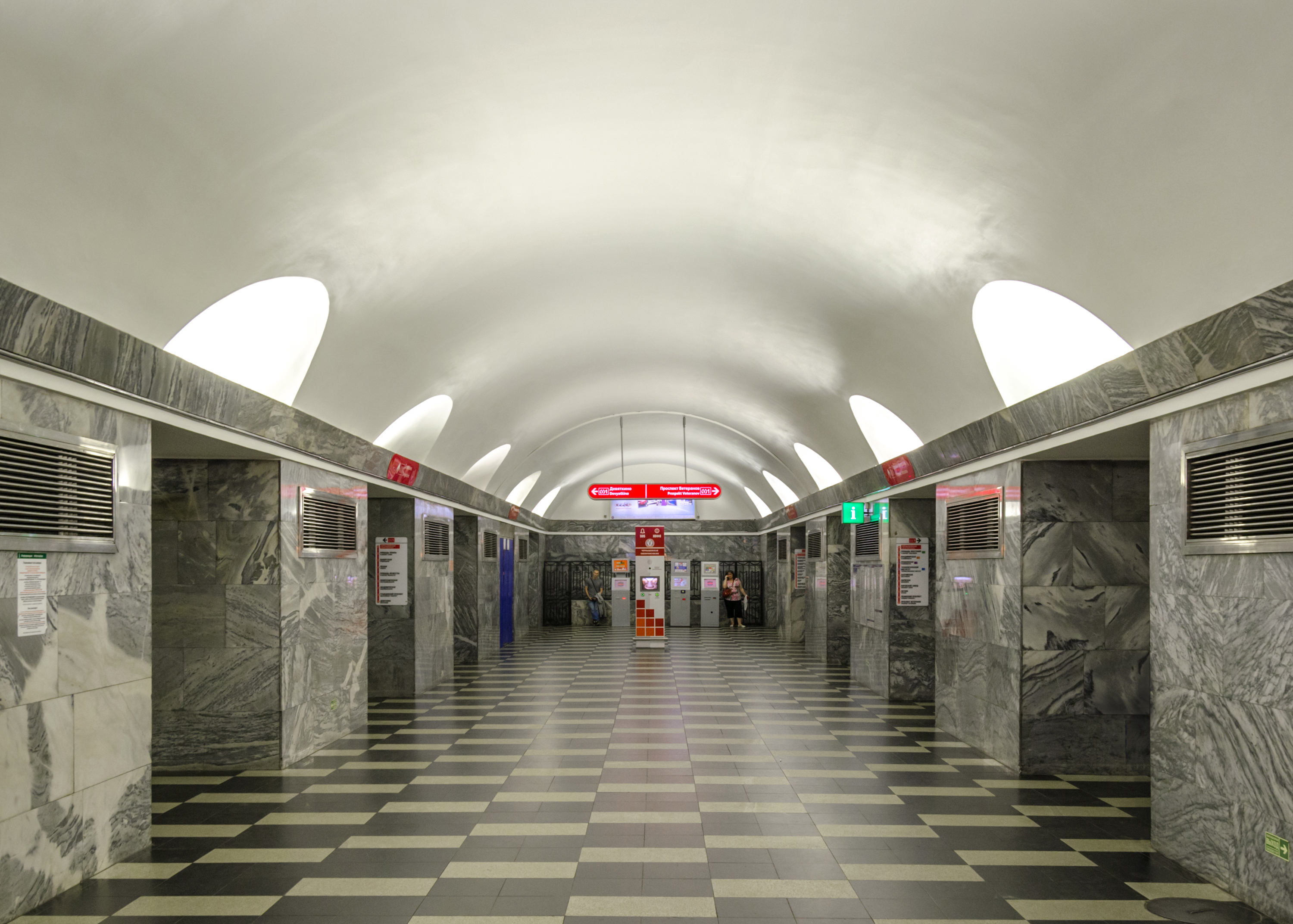 Chernyshevskaya station of Saint Petersburg Subway